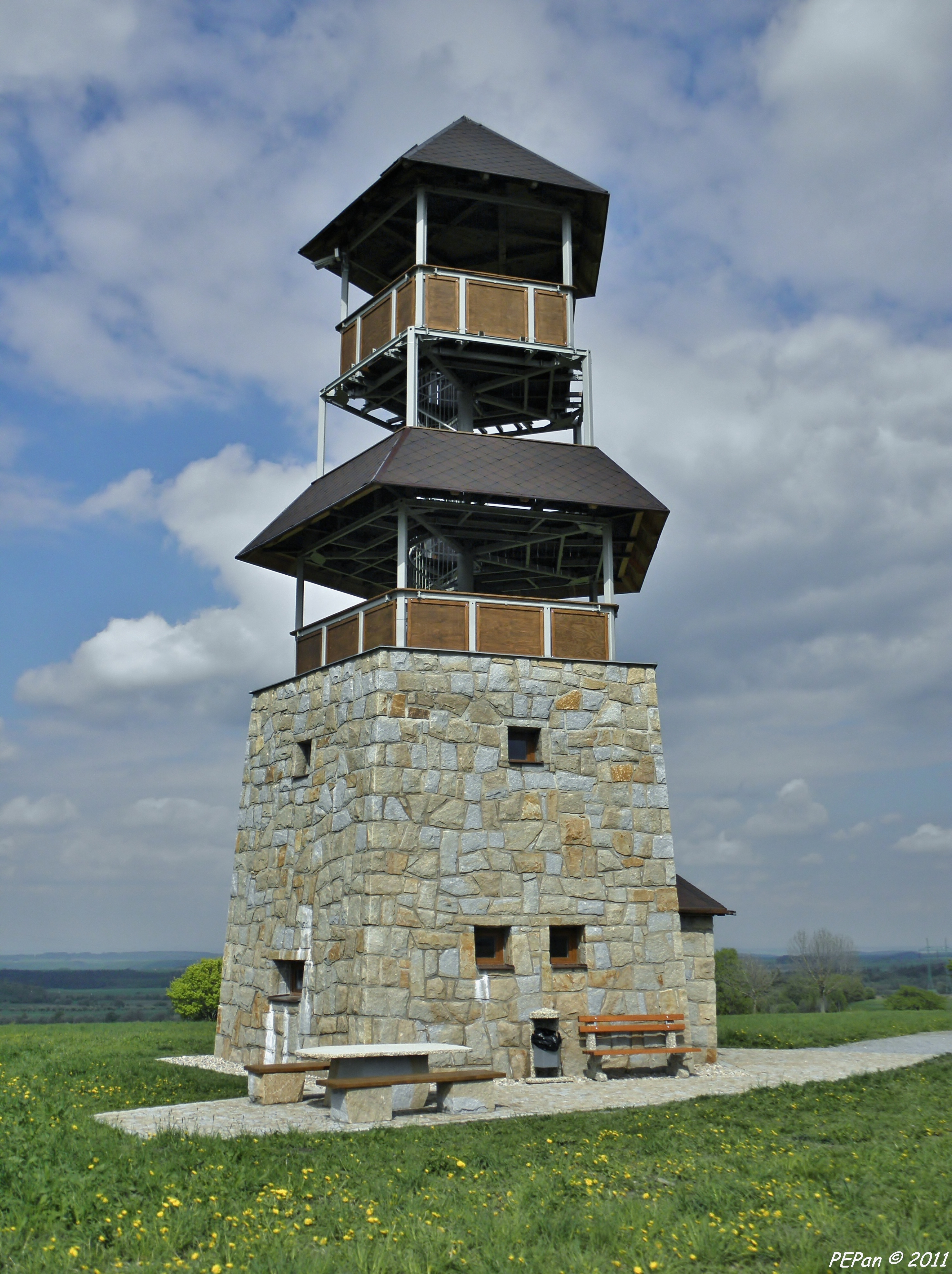 "Vojtěchovská" lookout tower is one of the lookout towers in the Iron Mountains. It is built on the ridge above the village, in the cadastral territory of Vojtěchov in the Chrudim district belonging to the Pardubice Region. Naming derived from the name of the municipality. Photo location: Czechia, Pardubice Region, villages Vojtěchov.